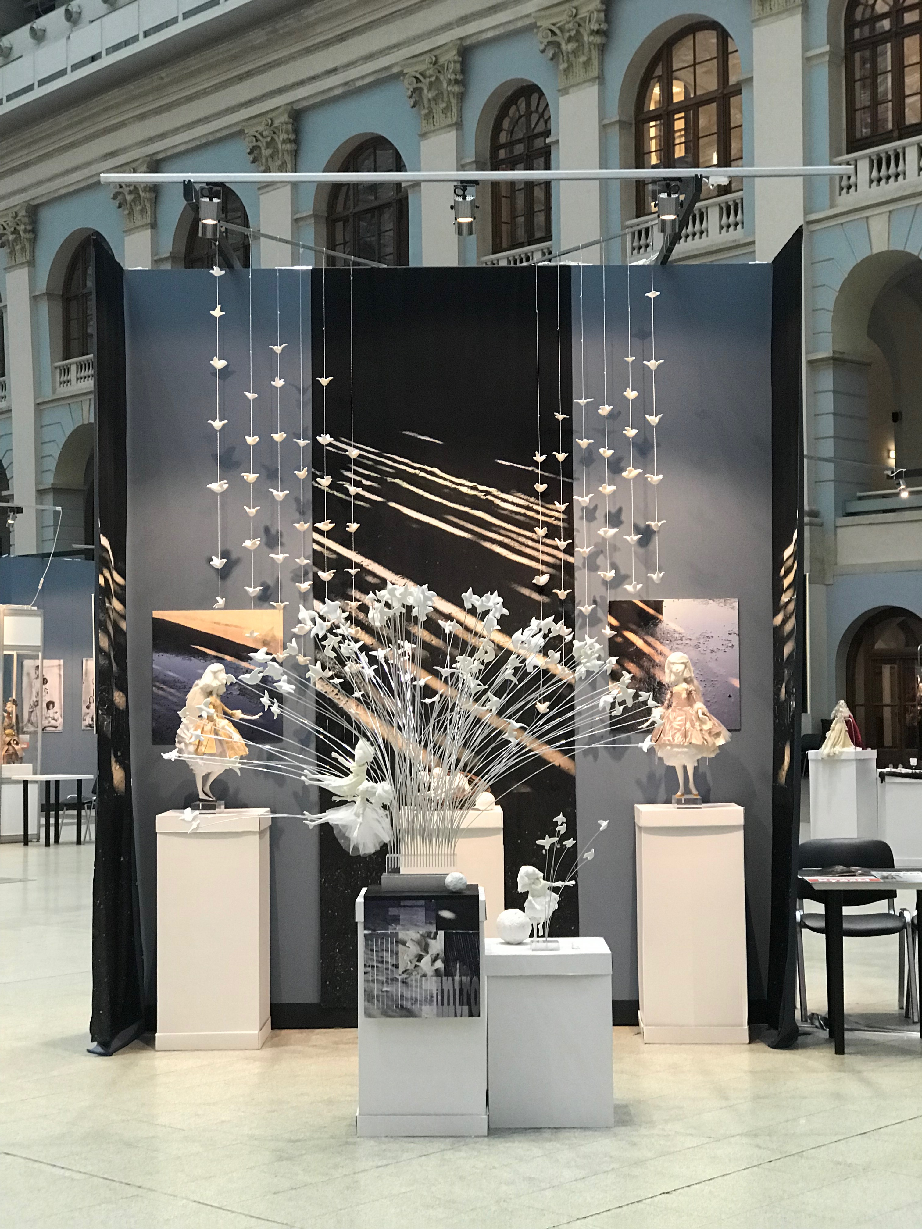 INTRO Project,exhibited in Moscow,Gostiniy Dvor 2017